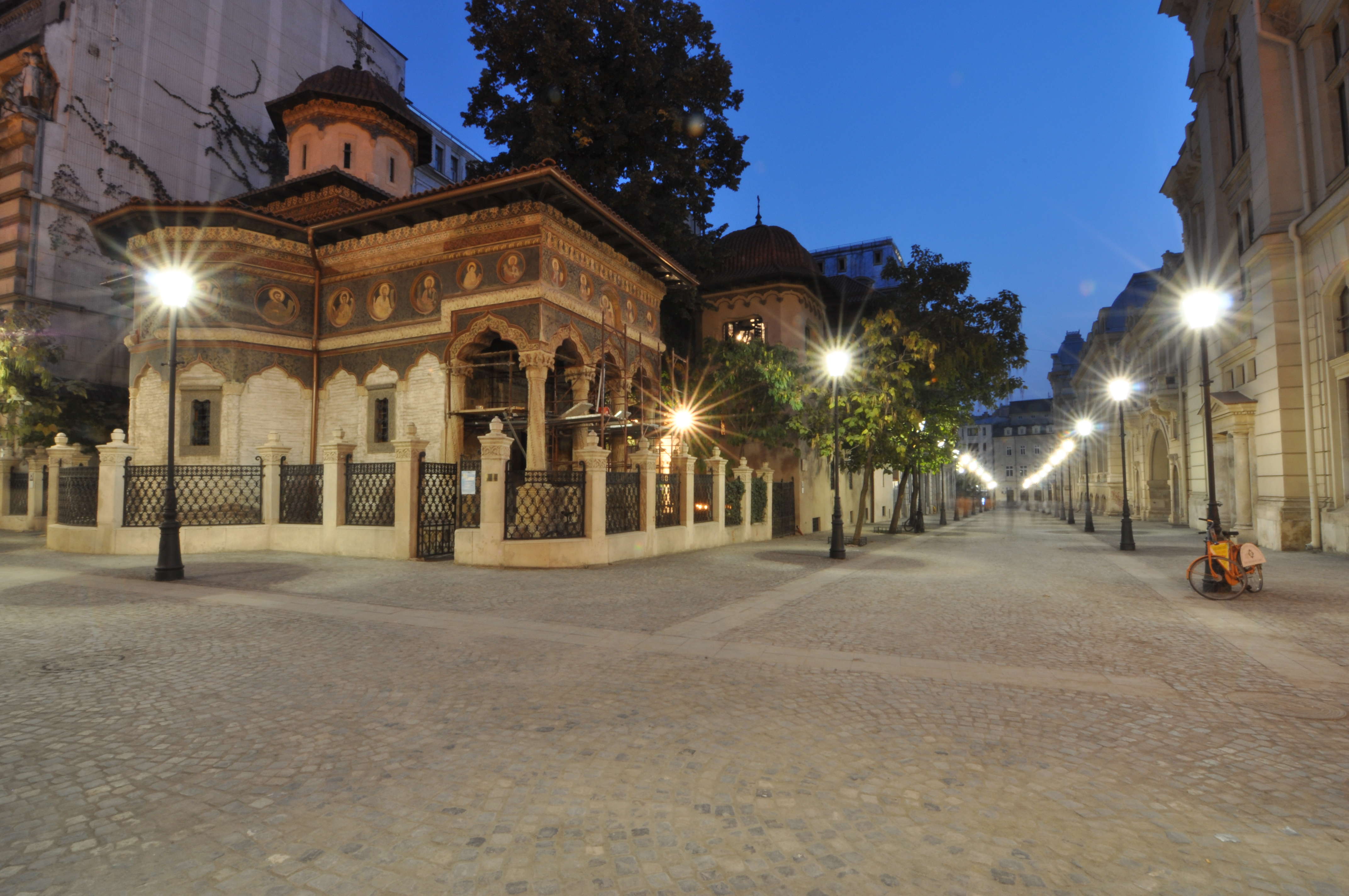 Stavropoleos Monastery, Bucharest, Romania